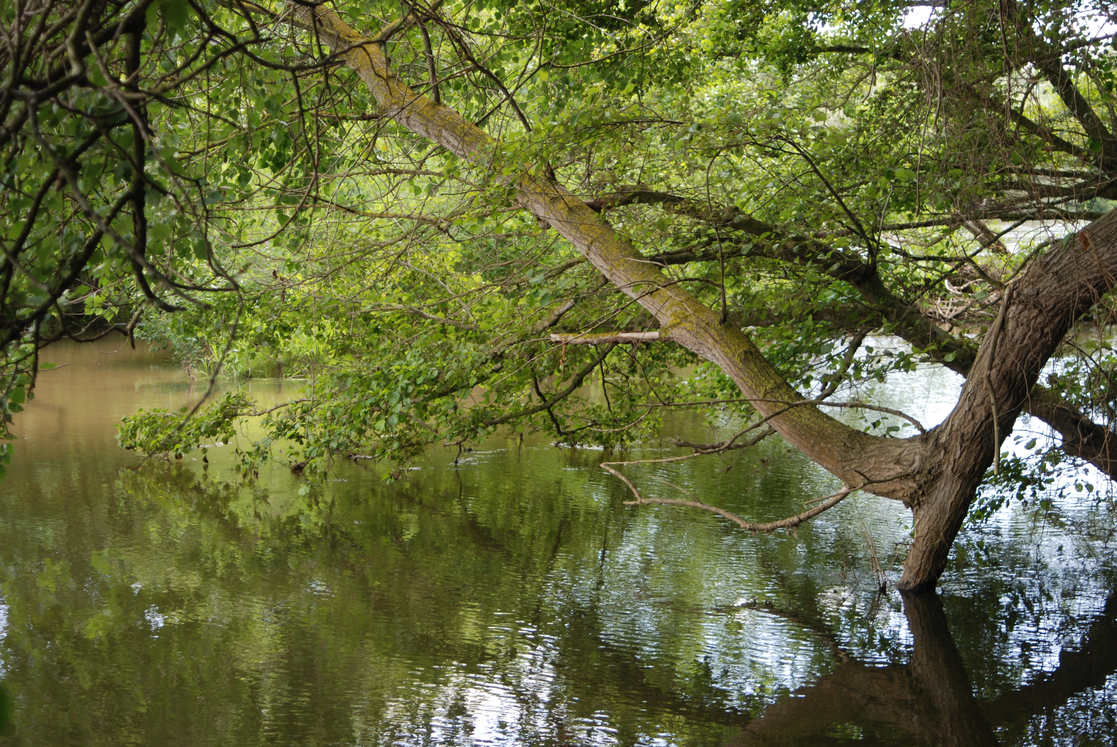 Delta of river Mesta (Nestos), Thrace, Greece